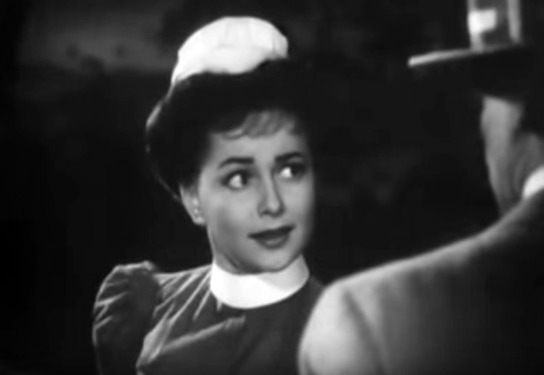 Olivia de Havilland in a screen capture from the film The Strawberry Blonde, 1941